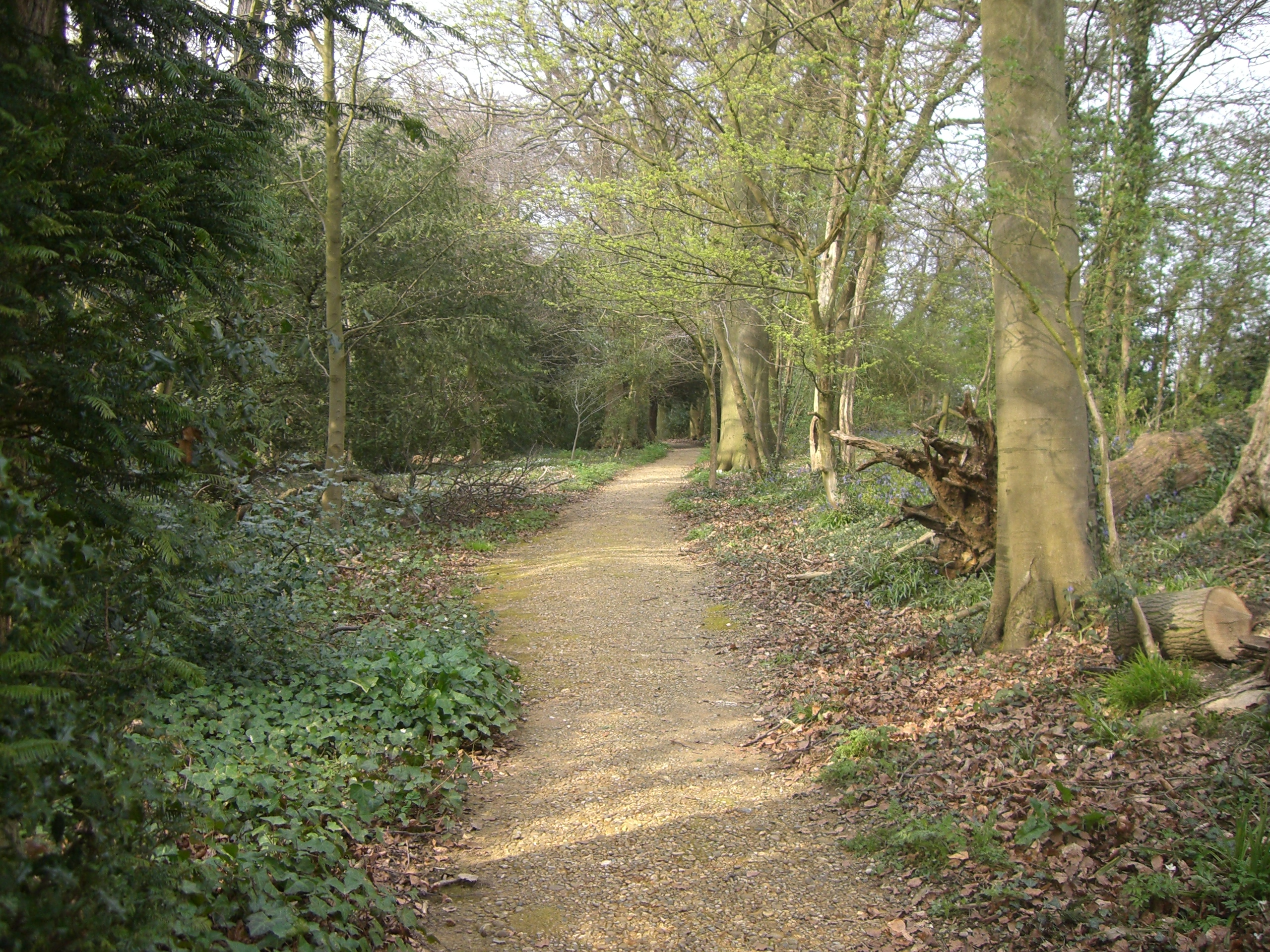 This is a path in the grounds of Down House. Darwin regularly walked along this path for exercise of body and mind. He called it his "Thinking Path". I visited Down House on my 60th birthday and took this picture with my digital camera.